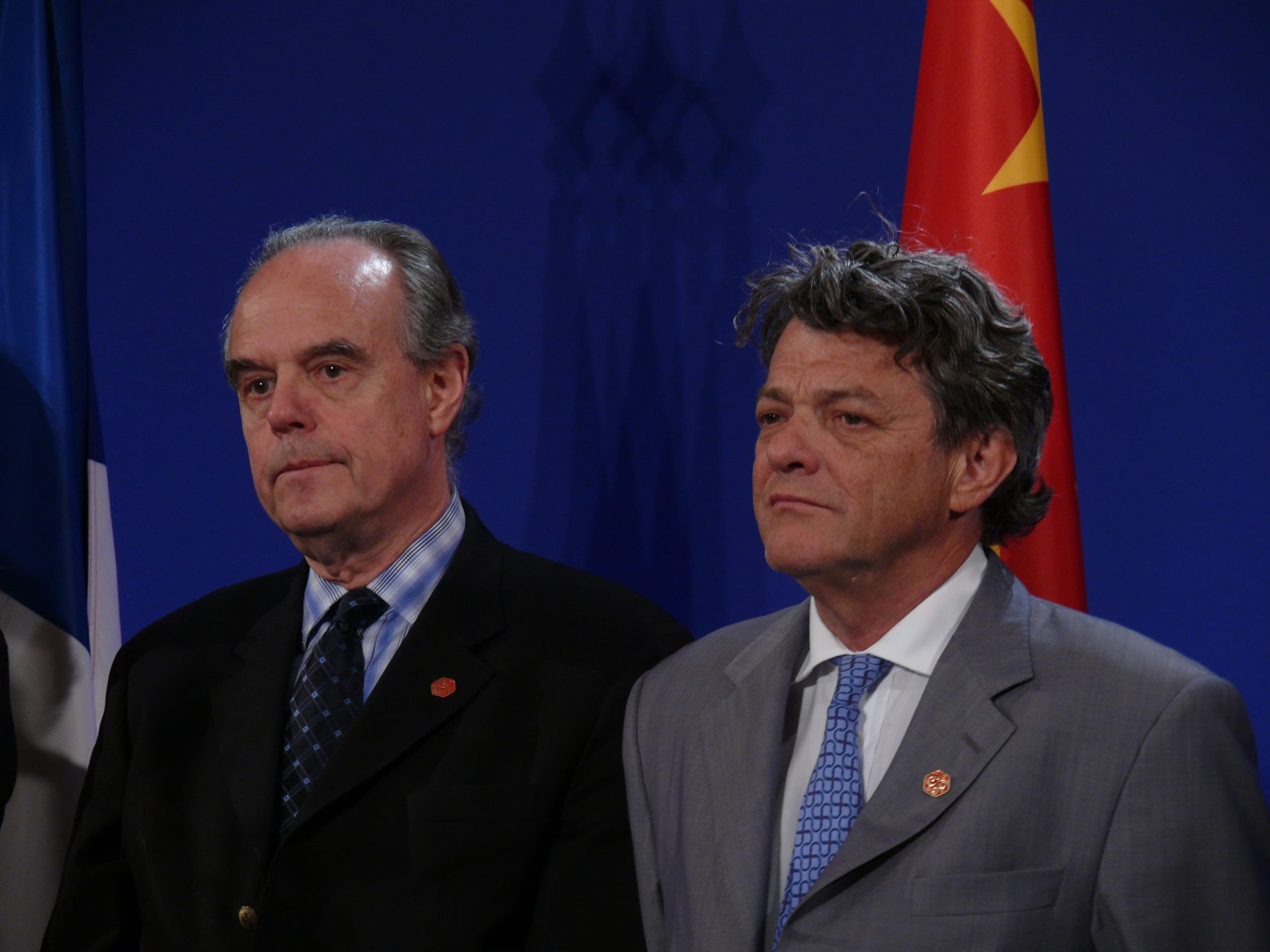 Meeting by President Nicolas Sarkozy on April 30th 2010 at Hyatt on the Bund Hotel in Shanghai (China)